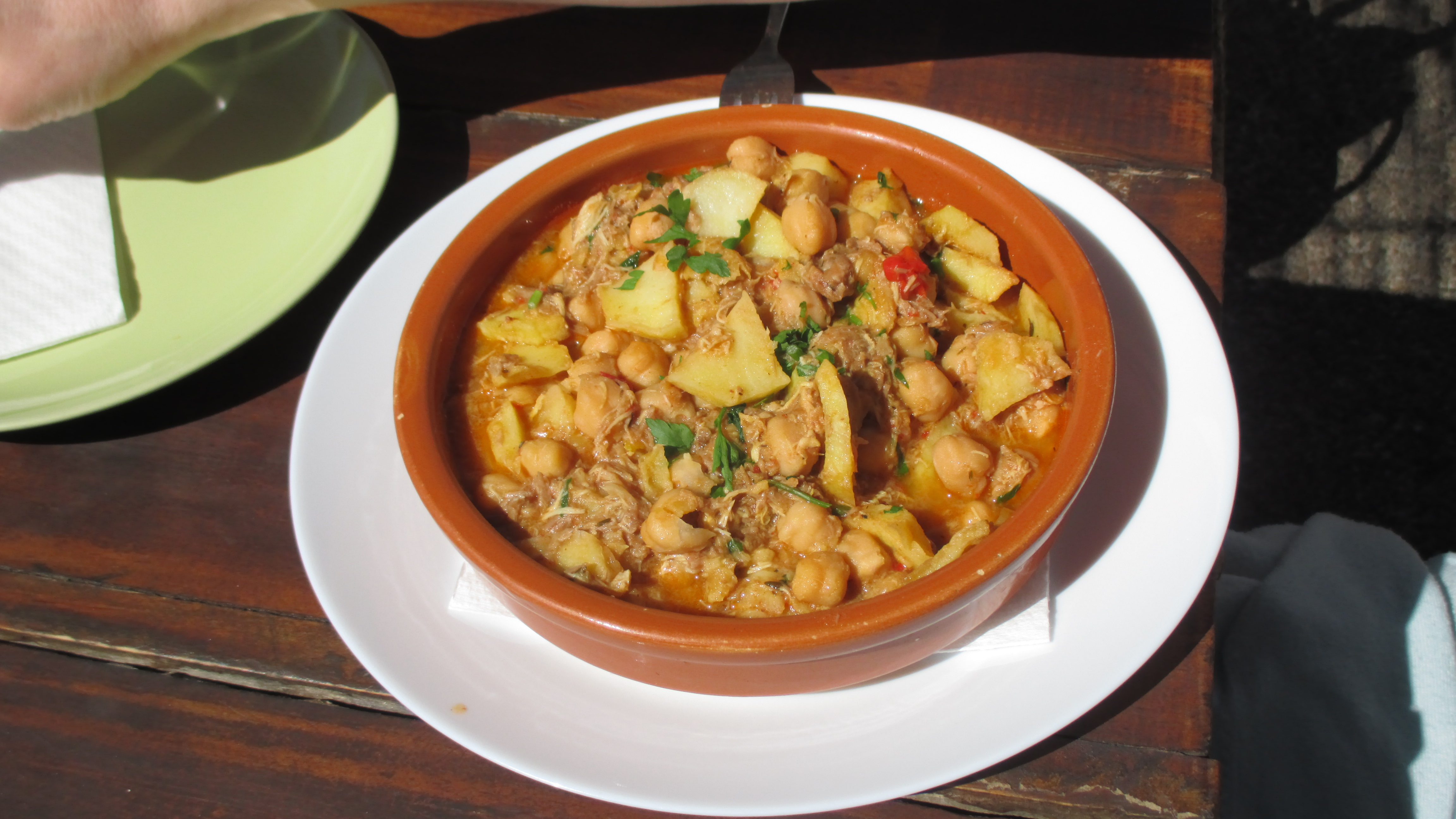 Ropa vieja Canarian style in Fataga, Gran Canaria, the Canary Islands